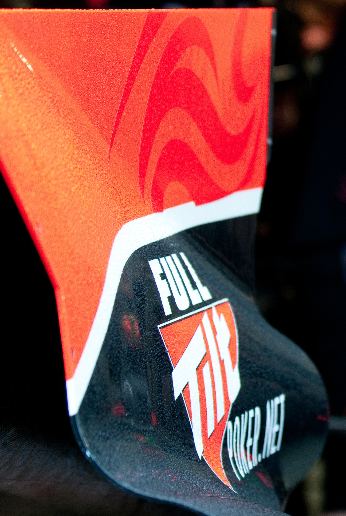 F1 GP of Canada 2010-30